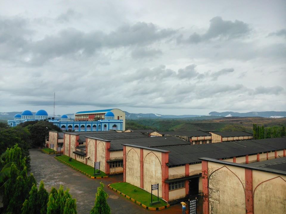 Majestic view of AITM from the hostel